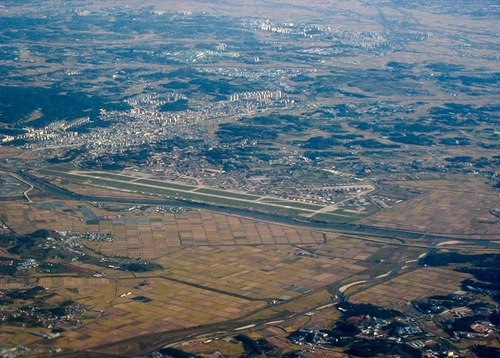 Osan Air Base seen during a flight from Vancouver to Seoul